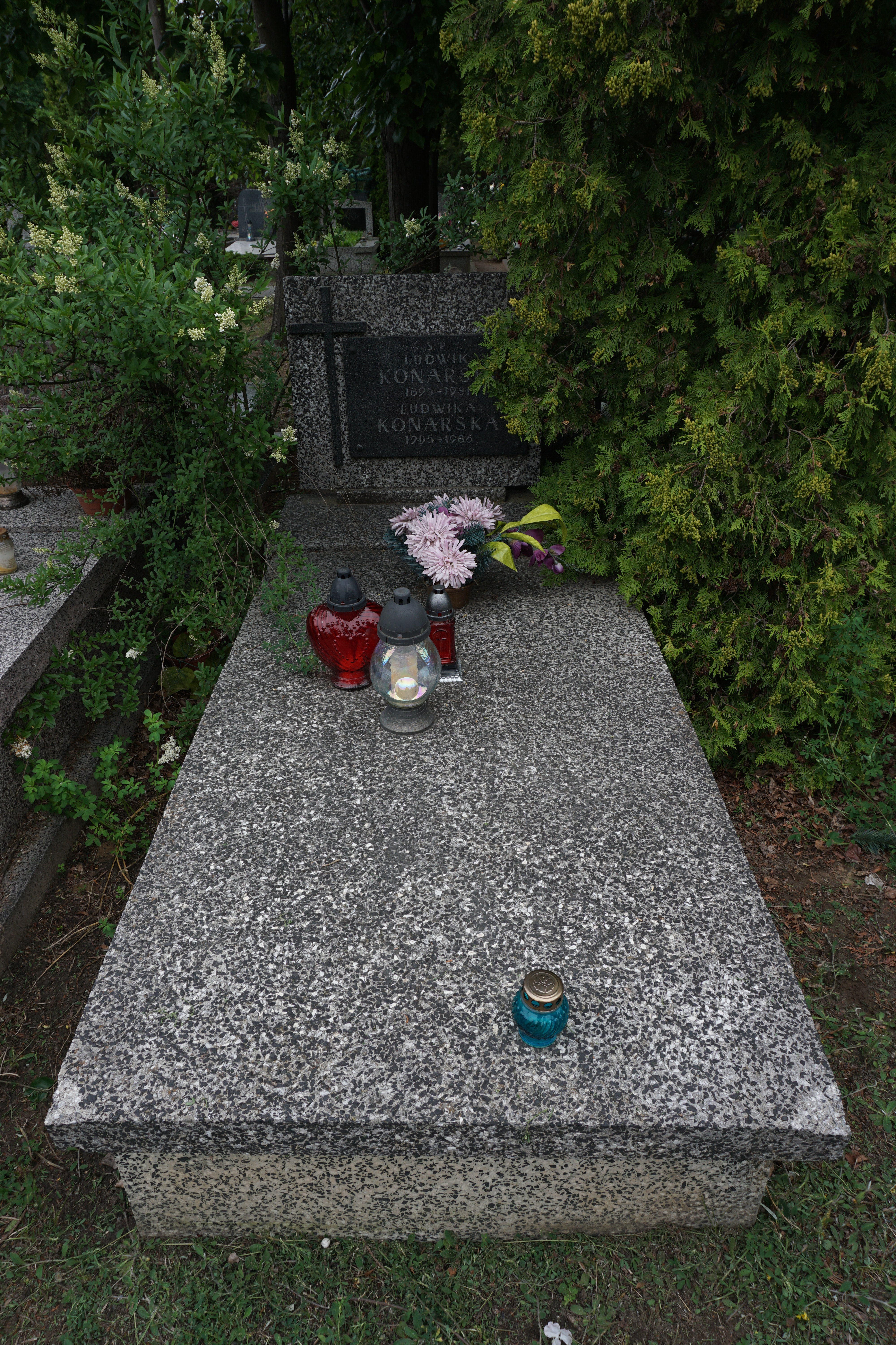 The grave of Ludwik Konarski at the North Municipal Cemetery in Warsaw (section E-VIII-2, row 2, grave 6)